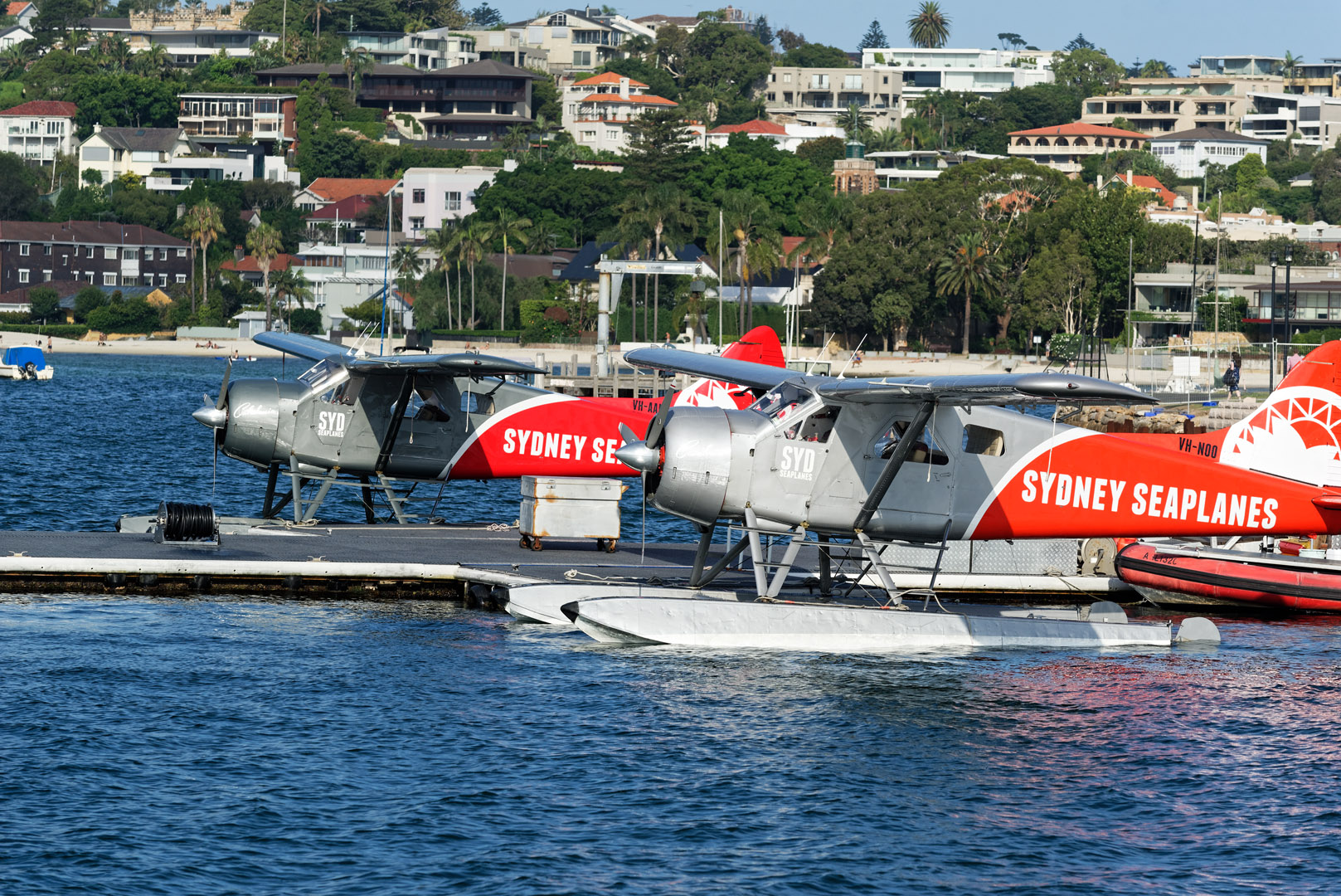 Photo of ill fated Sydney Seaplane taken Jan 10, 2017. Crashed on 31 Dec, 2017